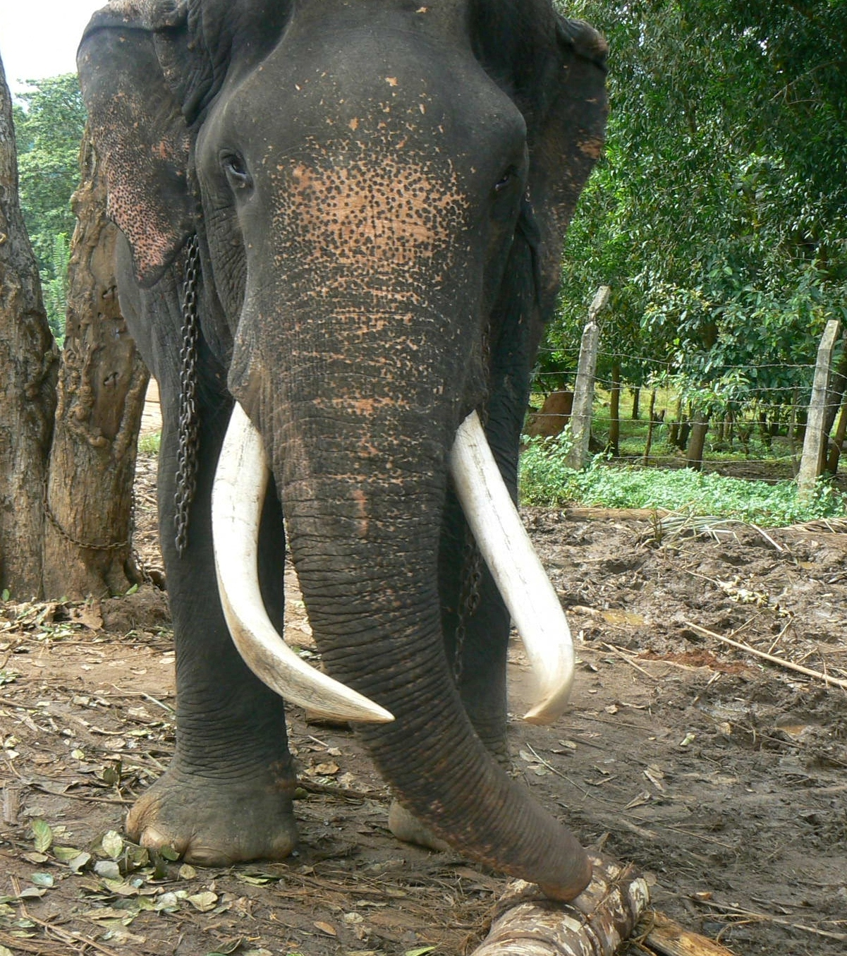 Srilankan tuskelephant